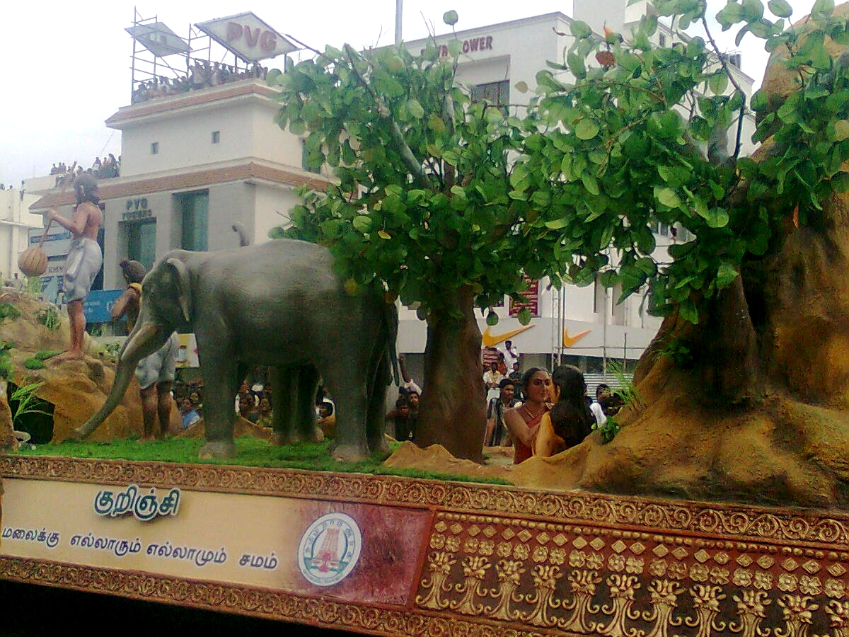 This picture taken in the Ulaga Tamil Chemmozhi Conference at Coimbatore